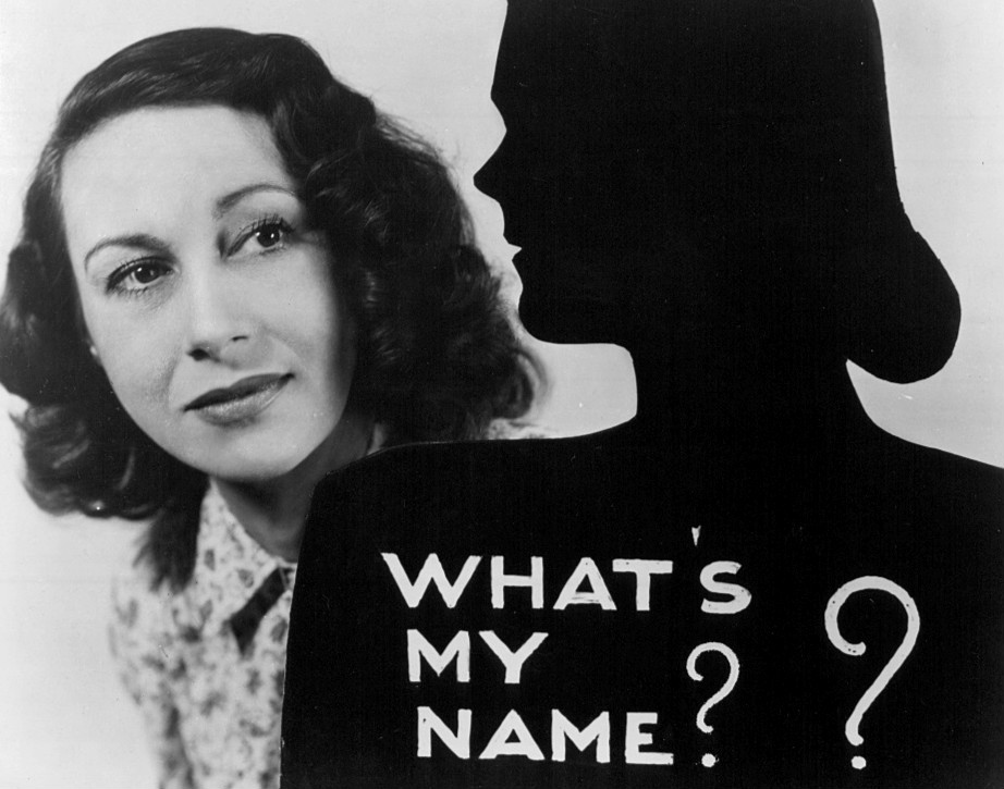 Photo promoting the What's My Name? radio show. Arlene Francis, one of the show's hosts, is pictured. The item has no copyright markings on it as can be seen in the links above.